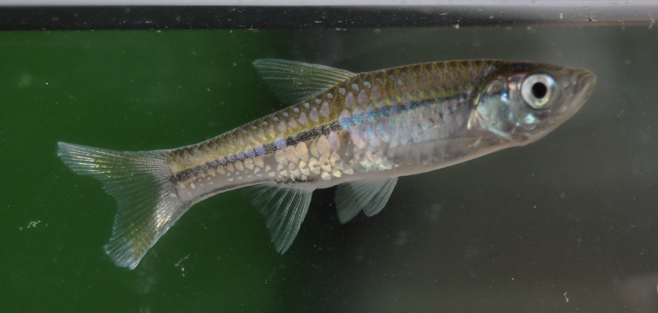 Rasbora argyrotaenia, 33 mm SL (standard length). From Banyumas, Central Java, Indonesia.